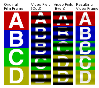 3:2-Pulldown diagram used for telecine. Diagram created for Wikipedia.